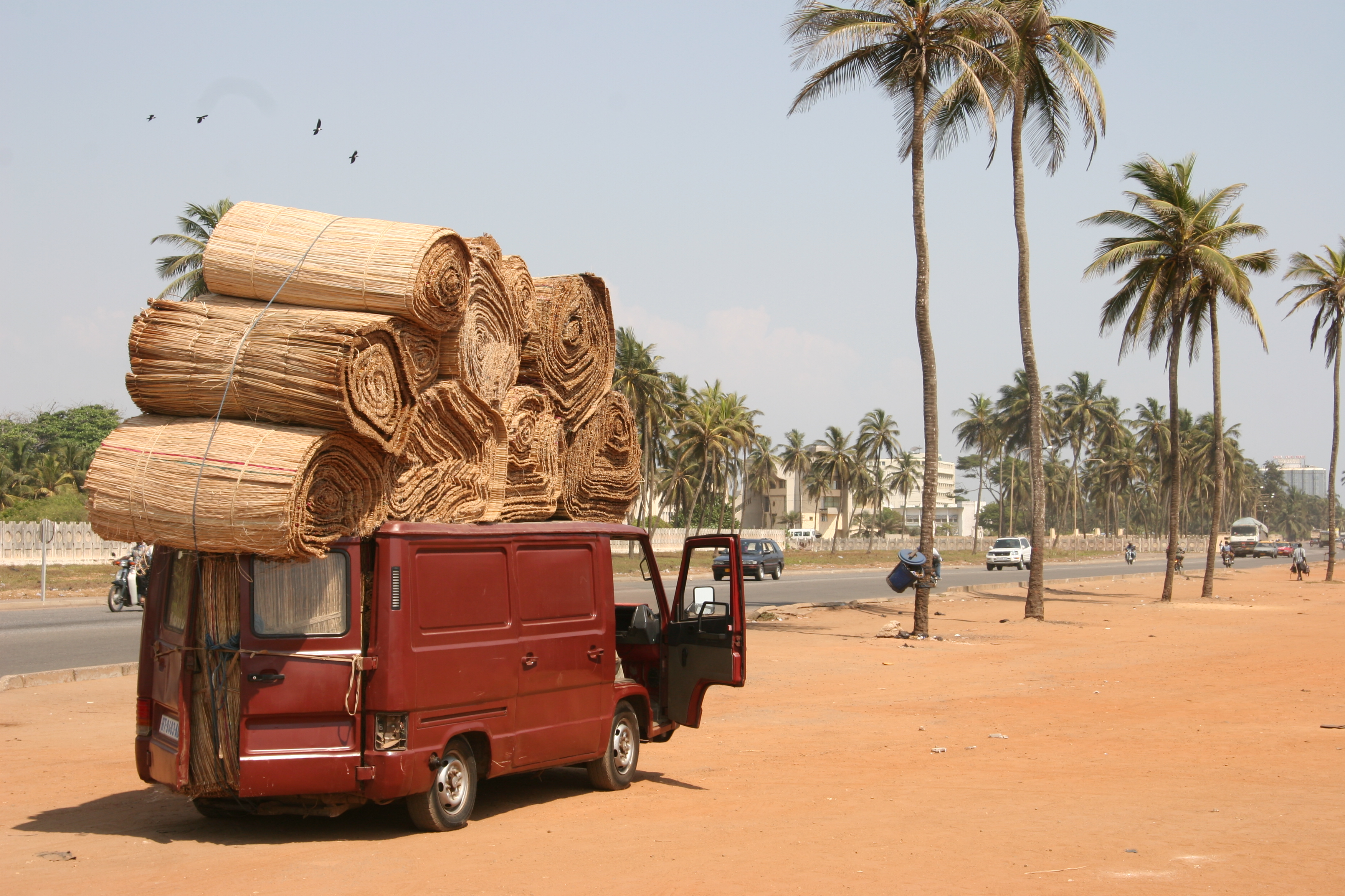 Togo, November 2007